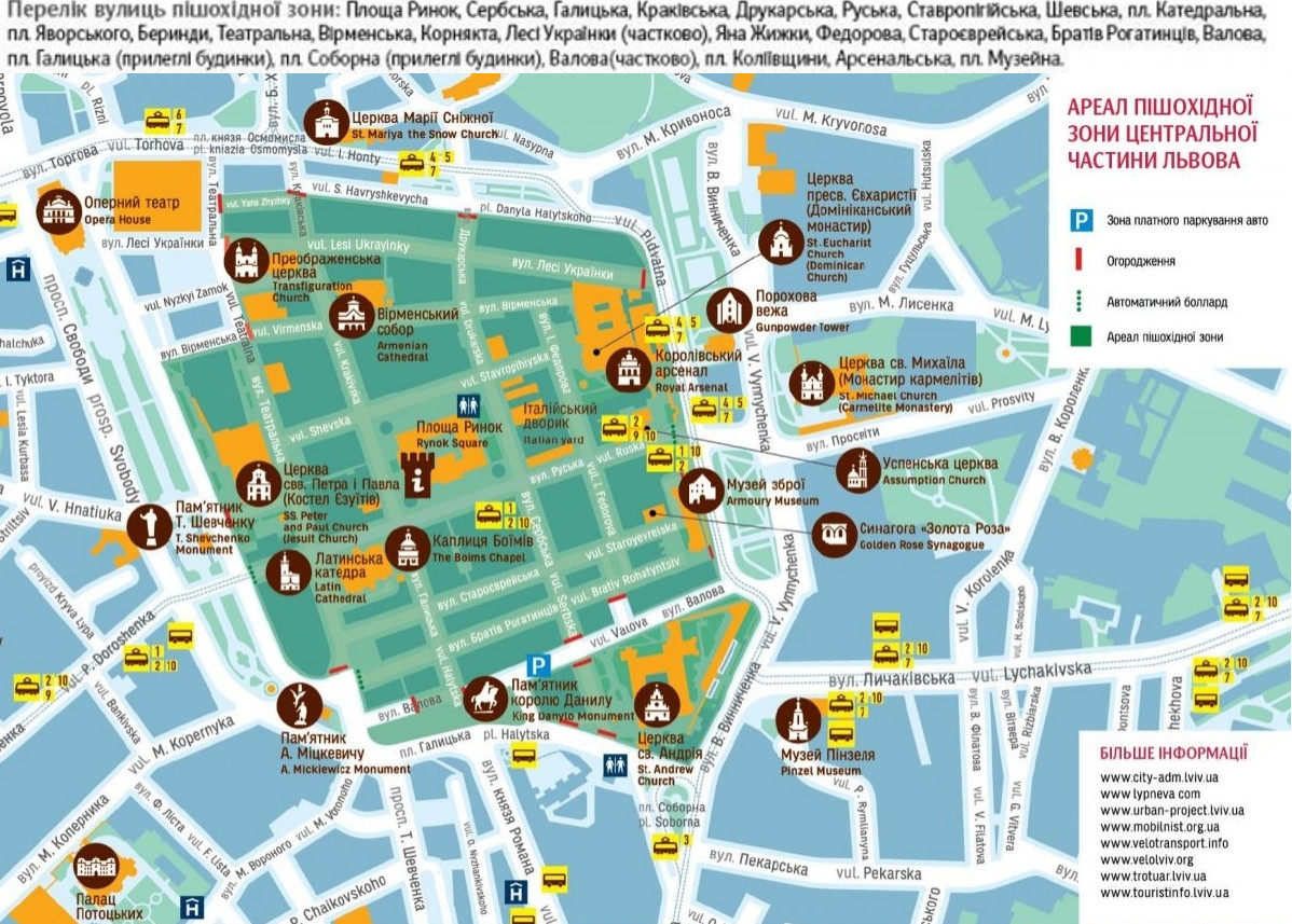 diagram of the pedestrian zone in Lviv